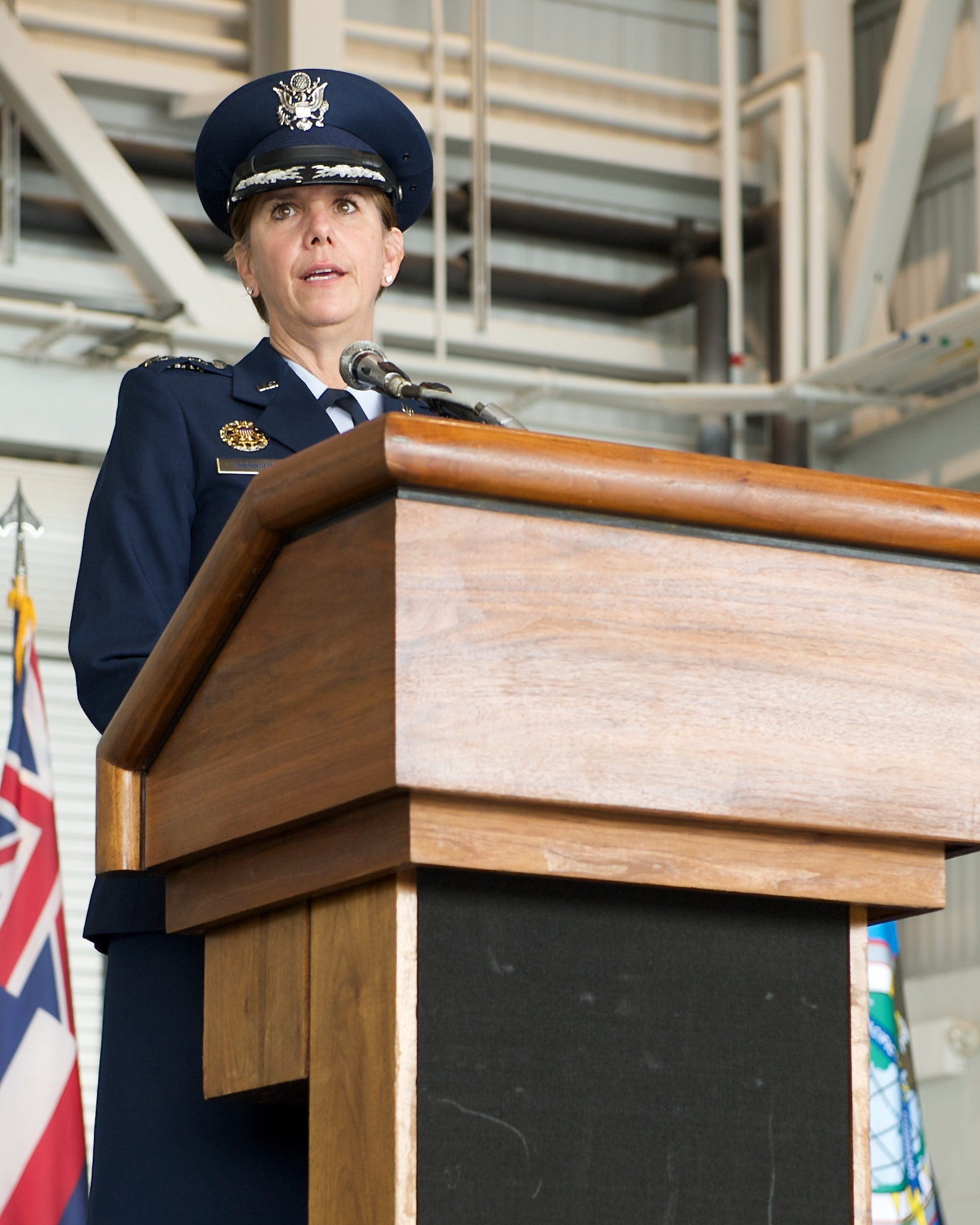 Gen. Lori Robinson, Pacific Air Forces commander, addresses Airmen during the PACAF change of command ceremony at Joint Base Pearl Harbor-Hickam, Hawaii, Oct. 16, 2014. Robinson became the first woman to lead a U.S. Air Force Component Major Command when she succeeded Carlisle during the ceremony. (U.S. Air Force photo by Tech. Sgt. James Stewart/Released)